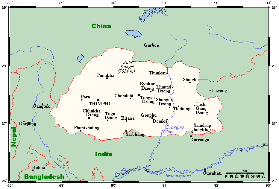 A map showing Bhutan's main towns and selected villages. This map's source is here, with the uploader's modifications, and the GMT homepage says that the tools are released under the GNU General Public License.